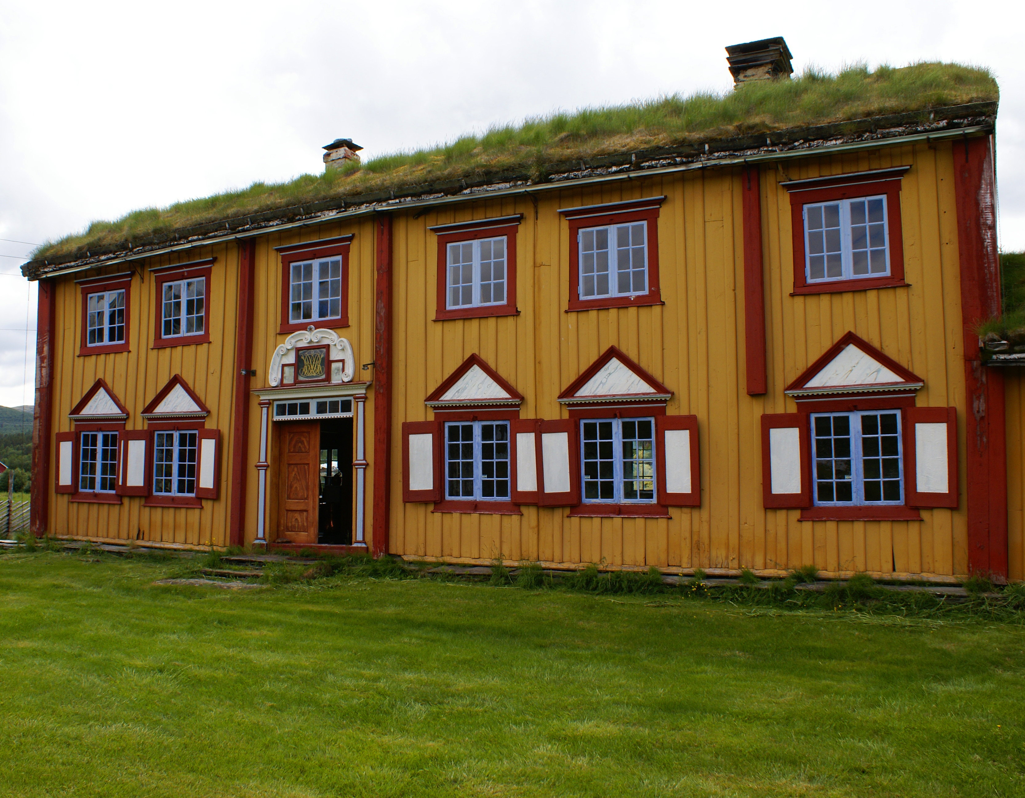 From Oddentunet, Os, near Røros, Norway - the main building